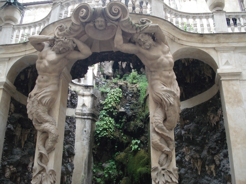 Podestà Palace in Genova